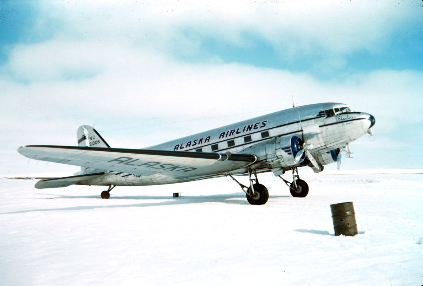 modified version of File:DC3 on ice.jpg by User:Hohum 1/27/12. Original Description: "Large planes with conventional landing gear can land on the sea ice A DC-3 offshore at Tigvariak Island. Spring 1949." Alaska Airlines plane, NC91008. The plane with this number displayed in the Museum of Flight, Seattle may be a substitute